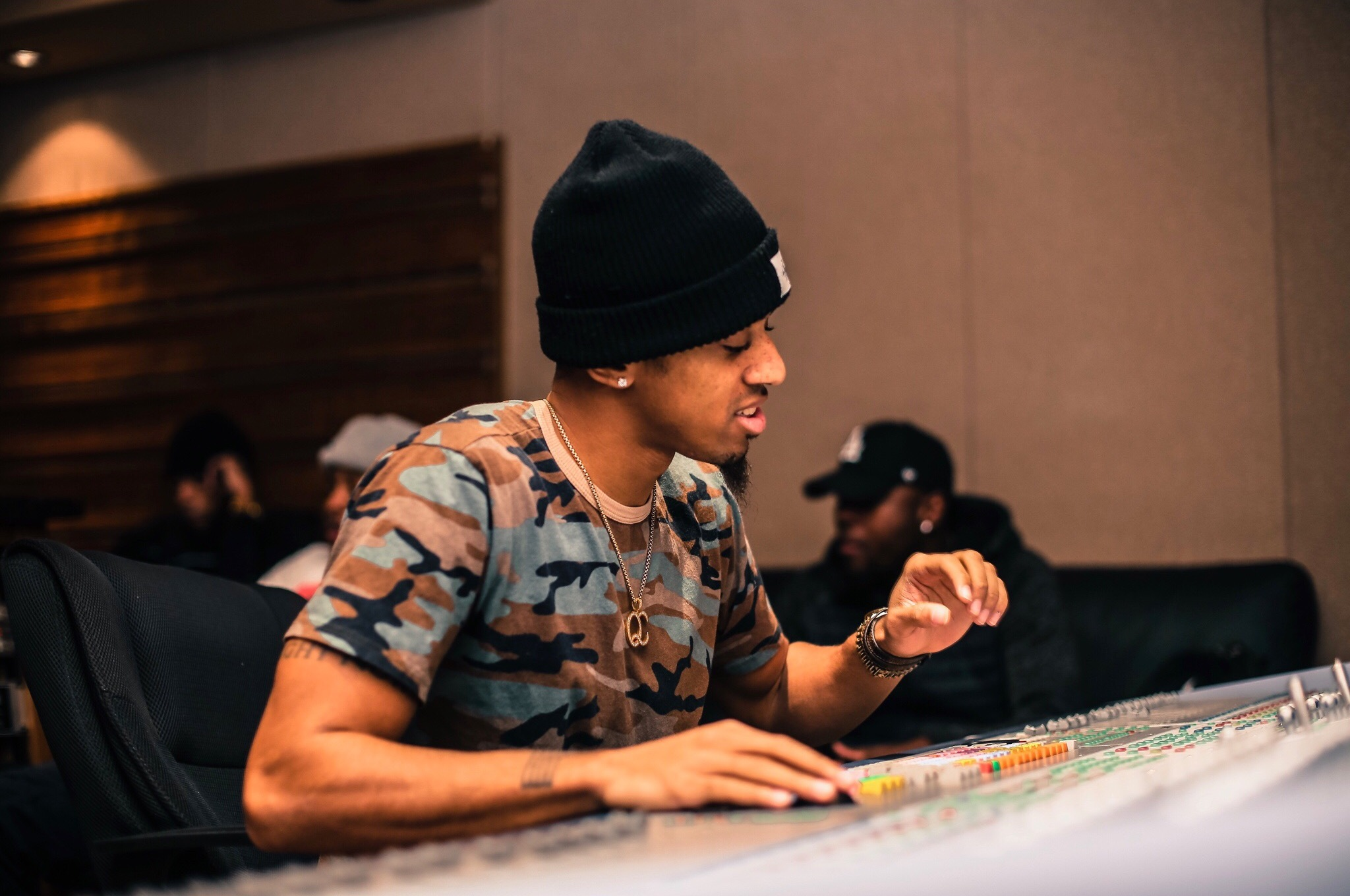 Producer OG Parker in studio in 2016